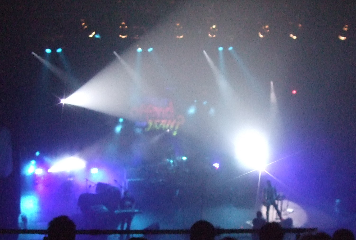 A picture of the band Does It Offend You, Yeah? during the NME Awards Tour where they were supporting The Cribs